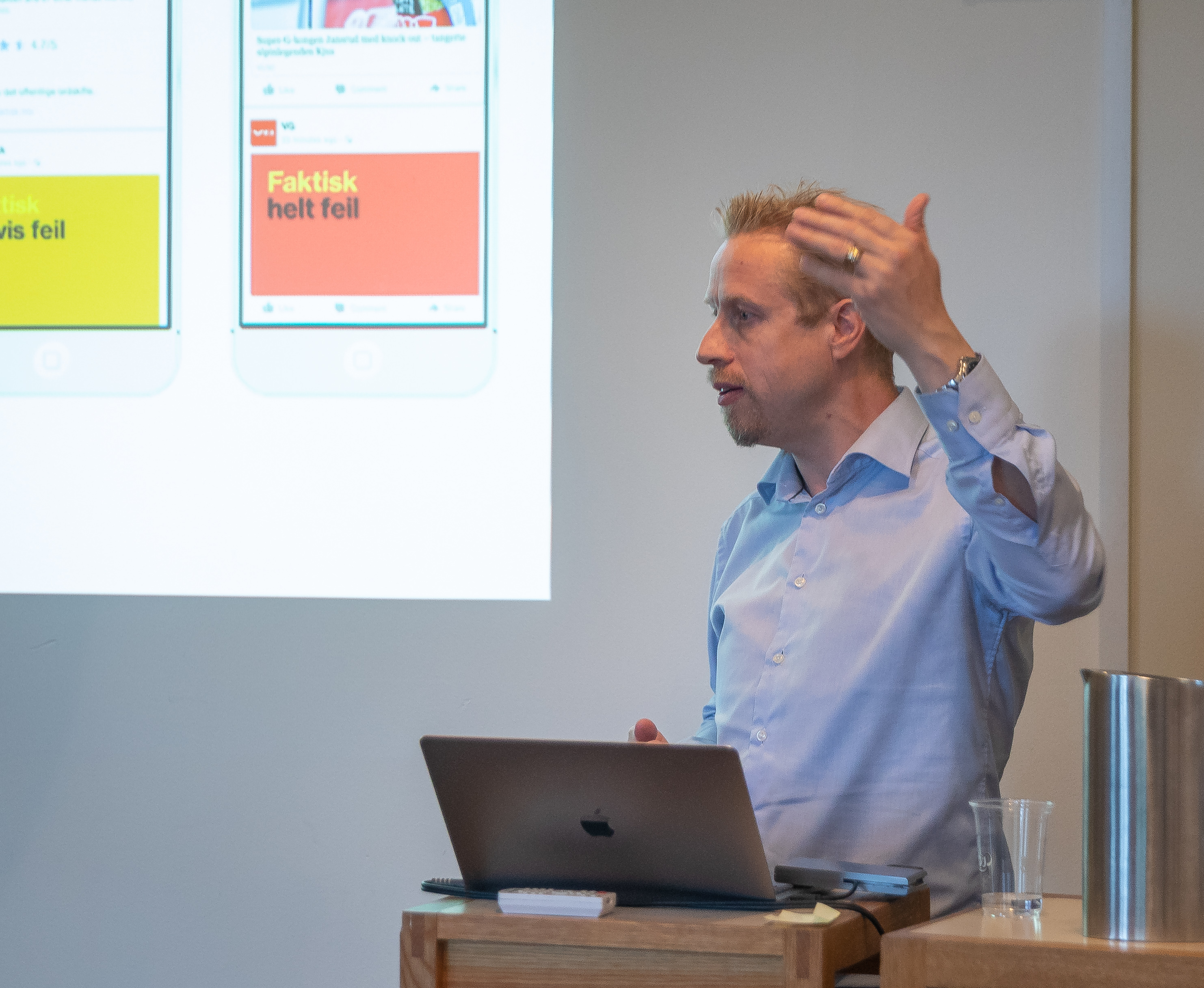 Editor Kristoffer Egeberg of fact checker site Faktisk.no. The event was hosted by Wikimedia Noreg.